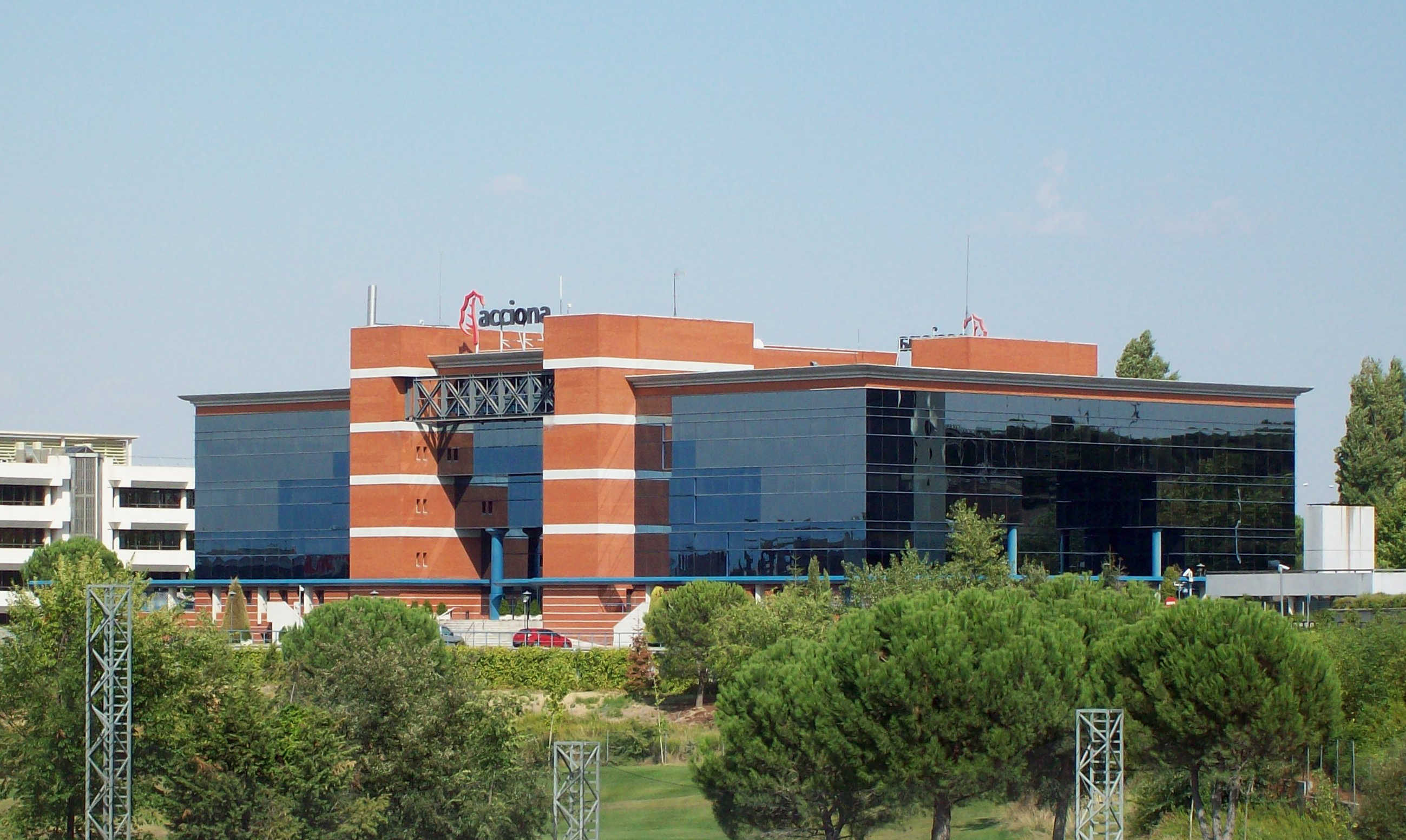 View of Acciona headquarters at 18 Avenida de Europa (street) in Alcobendas (Community of Madrid, Spain).